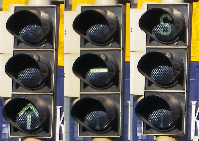 Signal of Helsinki Tramway "HeLMi" system